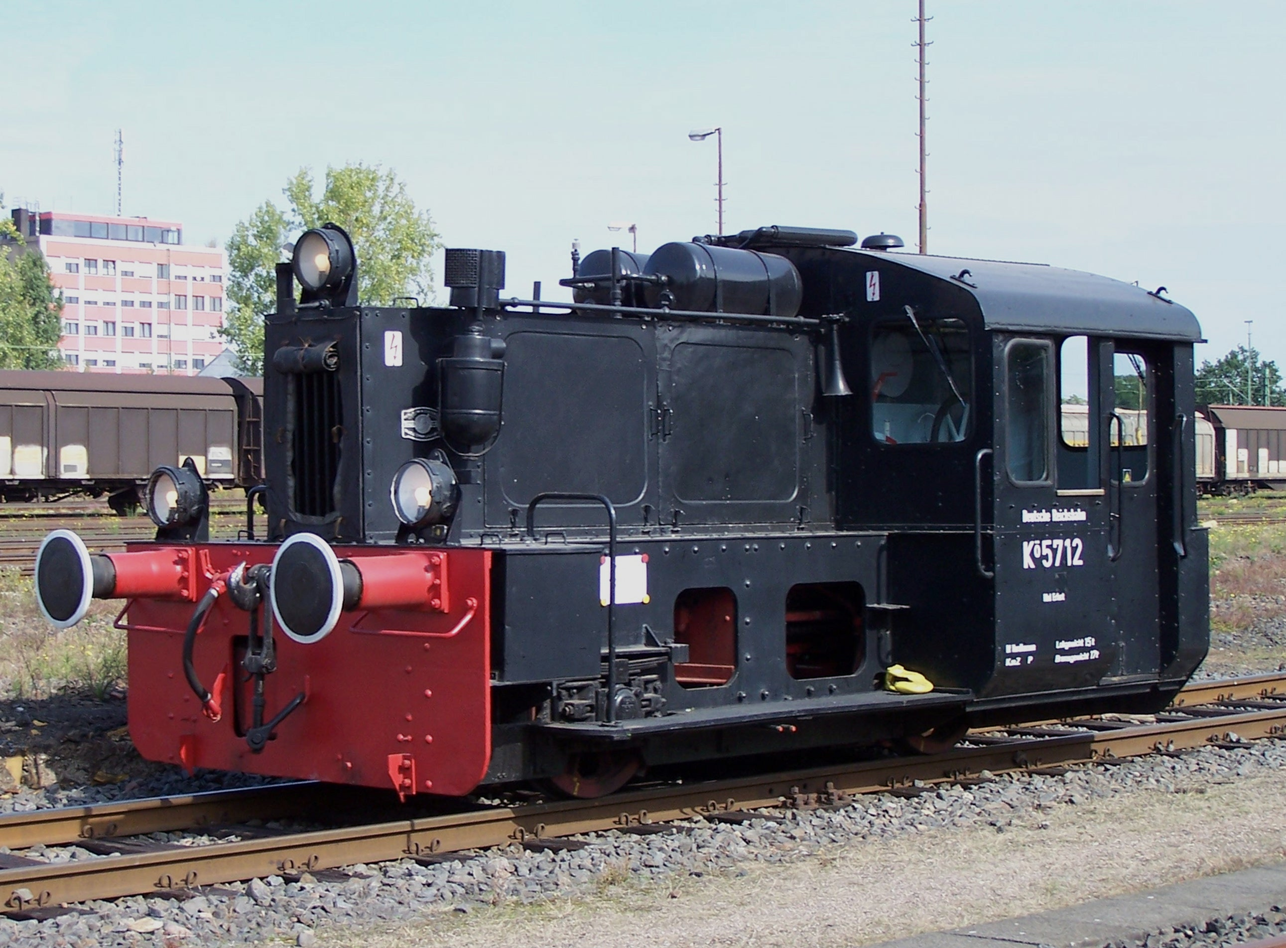 Koe II 5712 of the Historische Eisenbahn Frankfurt in Frankfurt am Main on the Hafenbahn ground